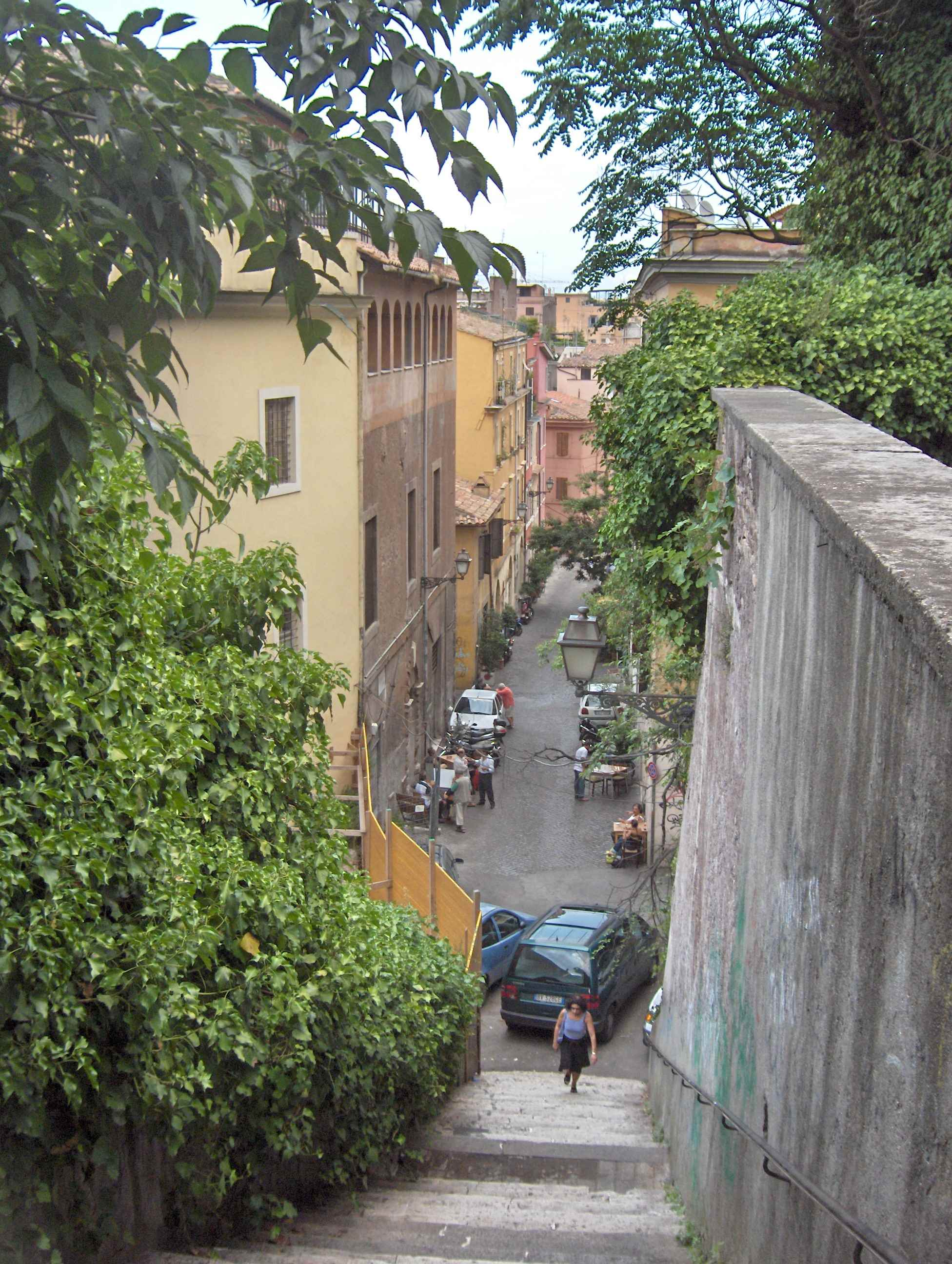 A narrow alley in Trastevere, Rome taken from the lower slopes of Gianniccolo hill.